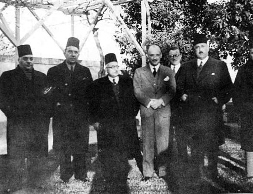 Lutfi al-Haffar and Gabriel Peaux the French Commissioner in 1939From left to right: Mazhar Raslan, the Minister of Interior, Fayez al-Khury, the Minister of Foreign Affairs, Prime Minister Lutfi al-Haffar, the French High Commissioner Gabriel Peaux, Nasib al-Bakri, the Minister of Justice, and Saleem Jambart, the Minister of Economy.